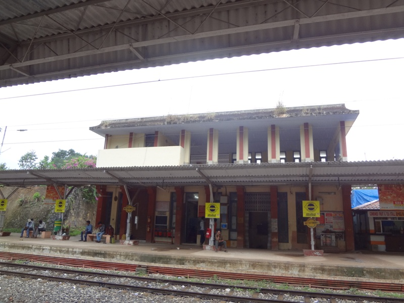 The main building of Neyyattinkara railway station